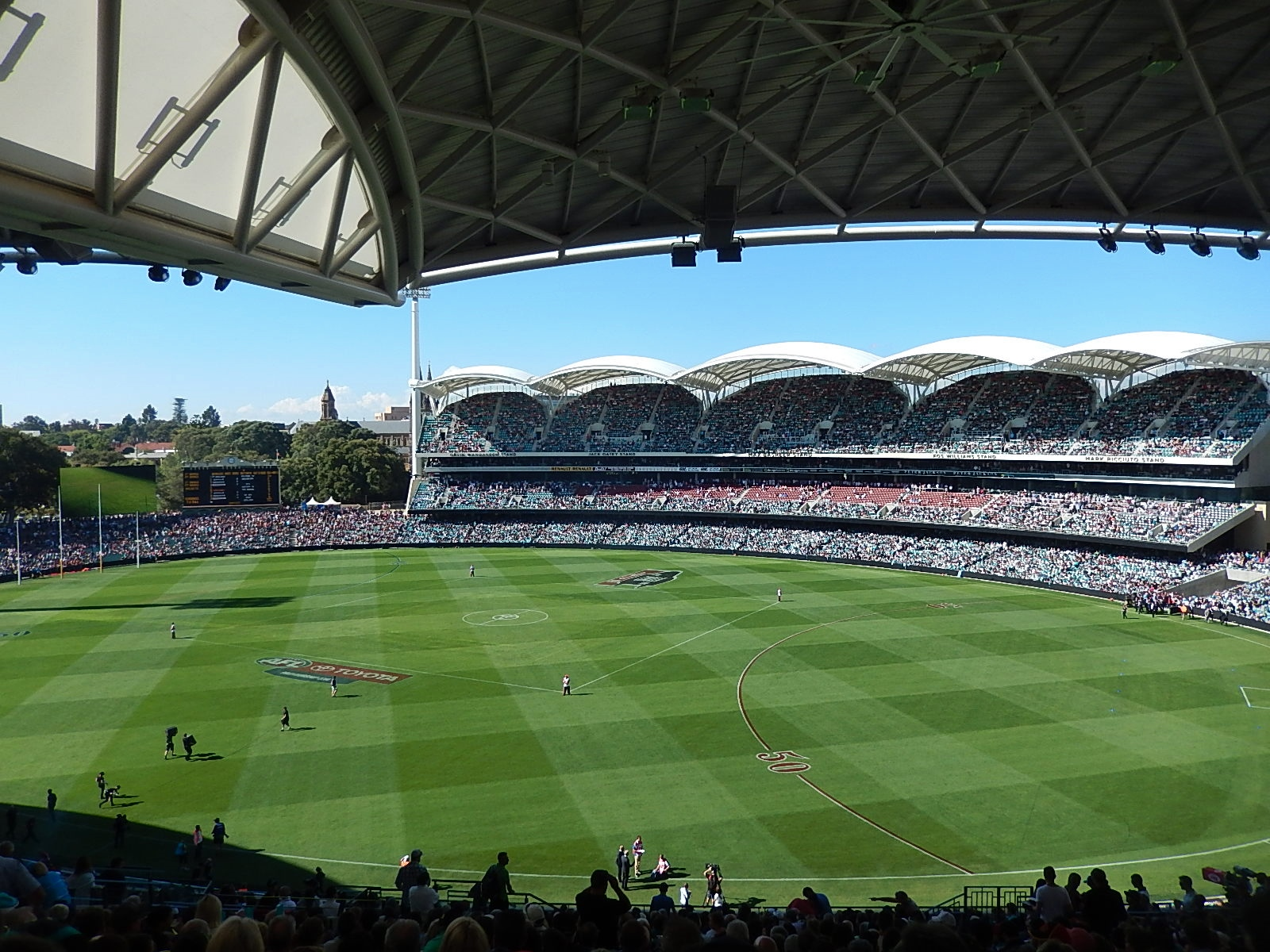 Adelaide Oval in March 2014